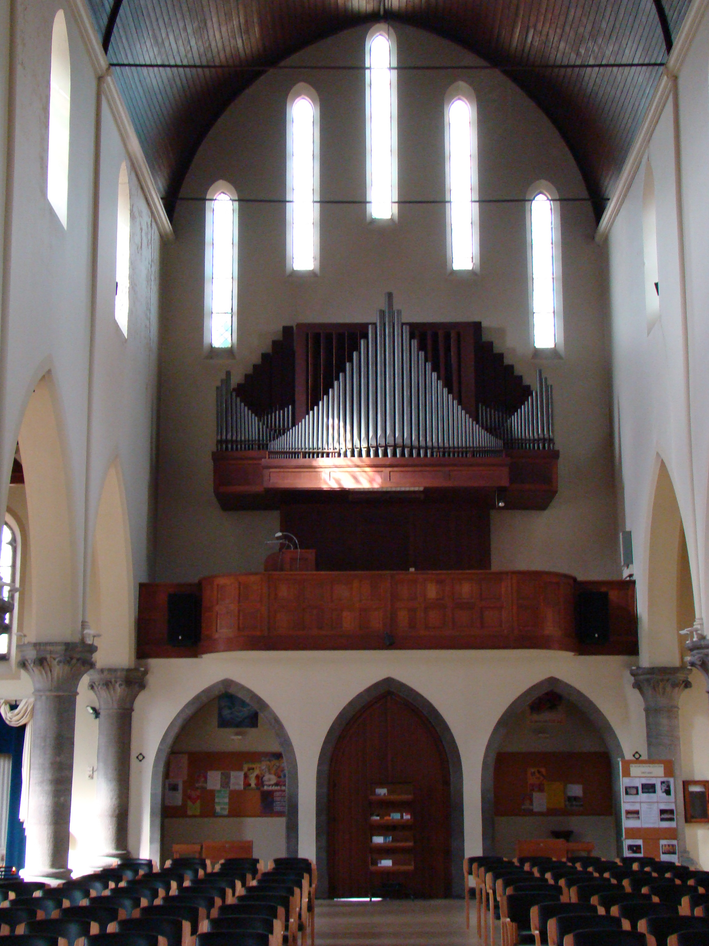 Heilig-Hart church Izegem (West Flanders, Belgium)